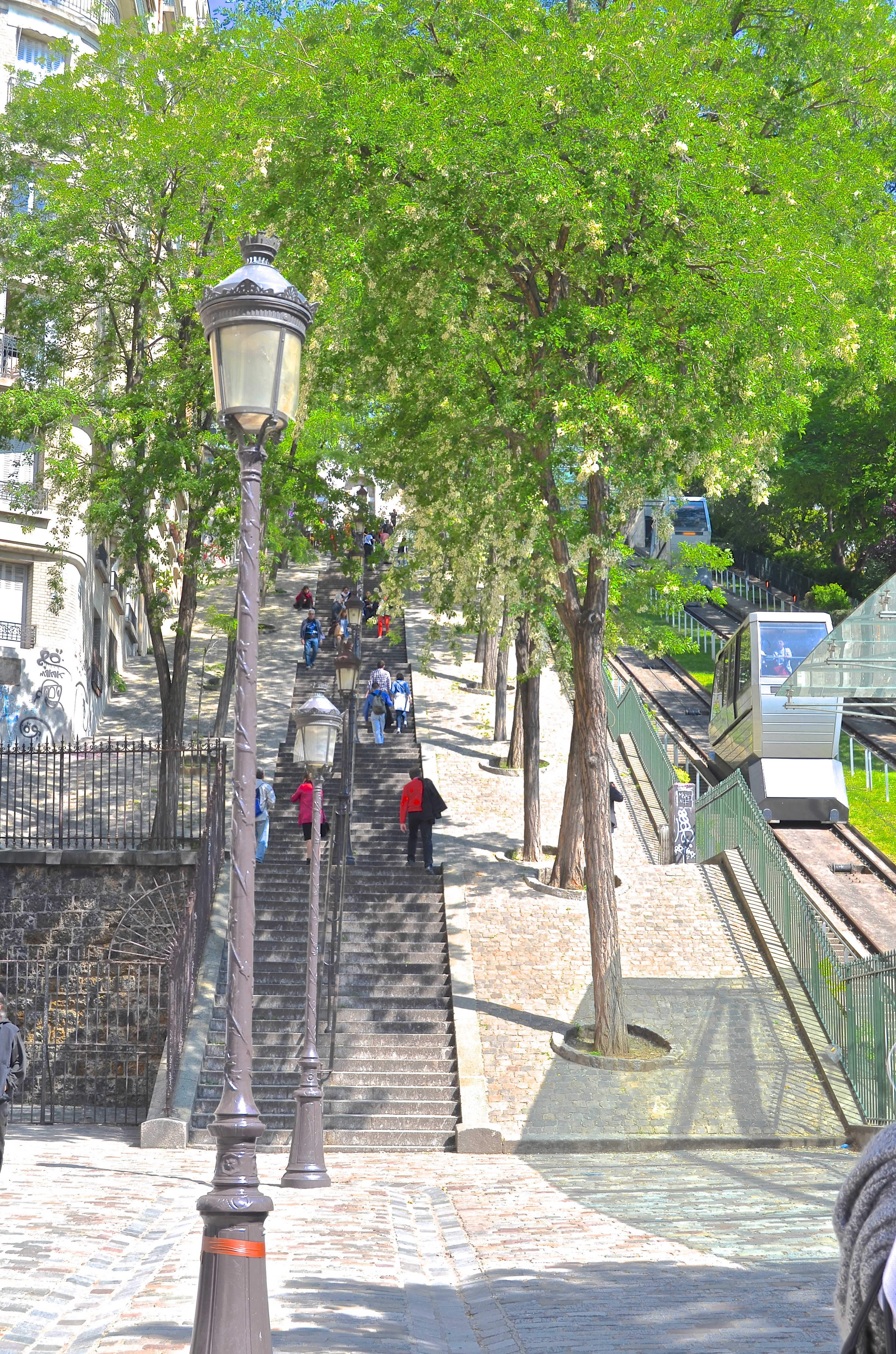 Montmartre Steps, Paris.